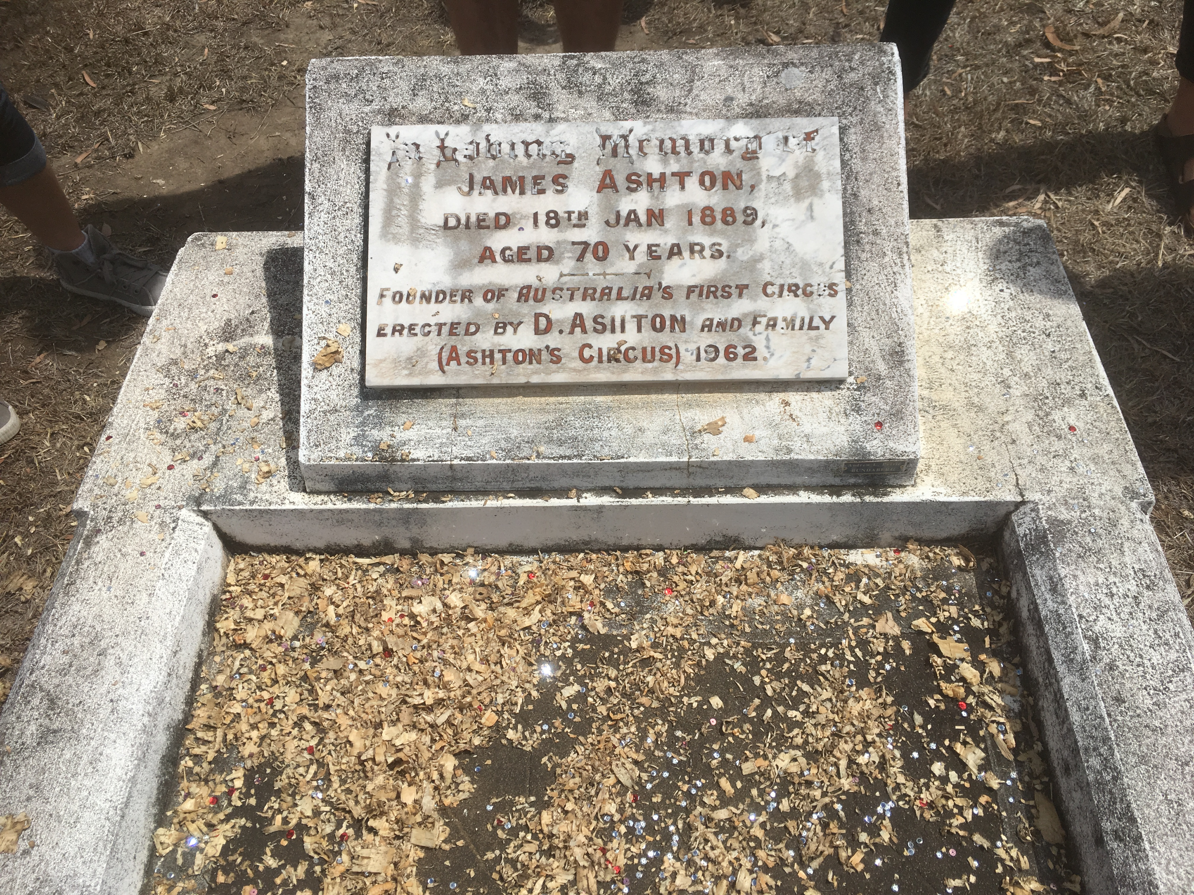 Possibly the most famous person buried at Gladstone cemetery is James Henry Ashton, the founder of Ashton’s Circus. The old veteran died at the Metropolitan Hotel, Gladstone, on January 17 1889, while on tour. Tributes spread through many newspapers and publications. He had travelled the Australian colonies for at least 40 years. The circus was handed down from generation to generation and the 7th generations of Ashton's are still performing Circus & Cabaret shows to this day. Through drought, depression, floods, war, the GFC, & the COVID19 pandemic, the show must go on. Ref to the passing of James Ashton can be found here, Rockhampton Morning Bulletin, 19 jan 1889. The Queenslander, 26 jan 1889. The Sydney Bulletin, 9 feb 1889. Melbourne’s table talk, feb 1889.